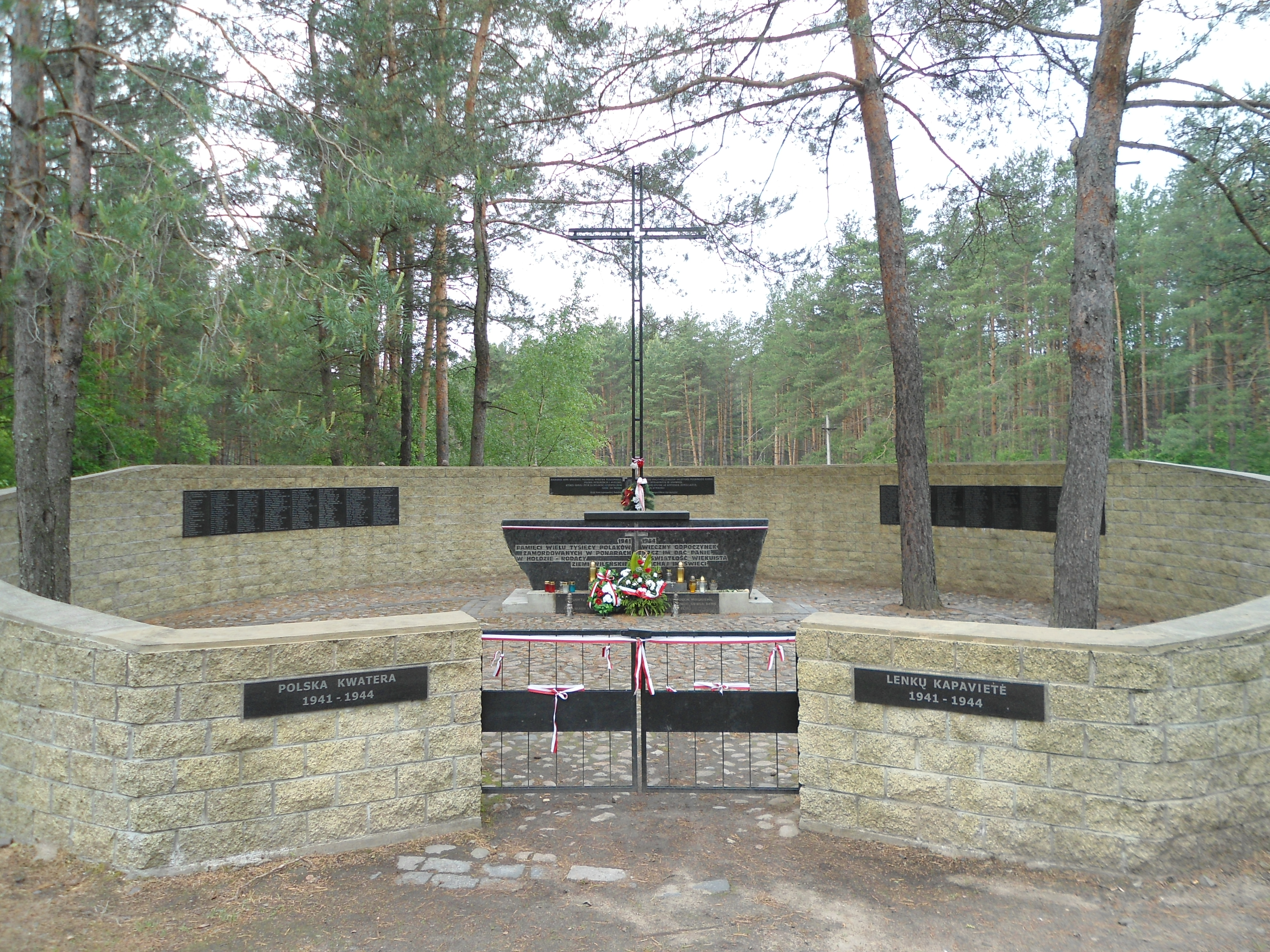 Polish Memorial at Paneriai